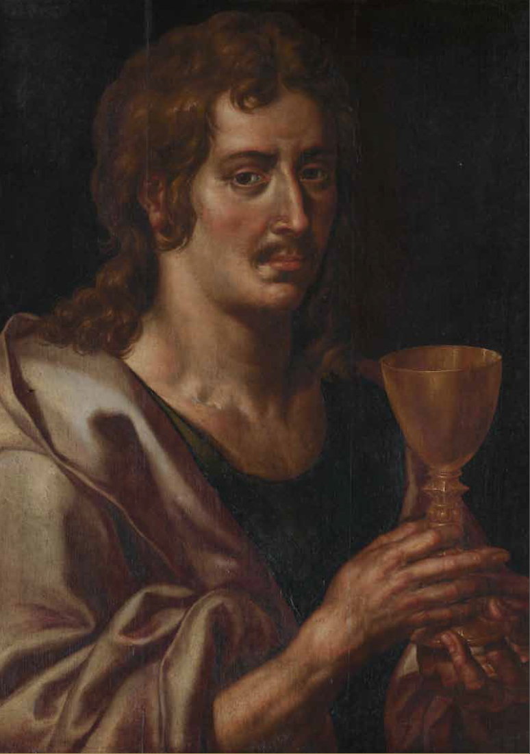 Height: 75 cm (29.5 ″); Width: 57 cm (22.4 ″) dimensions QS:P2048,75U174728;P2049,57U174728